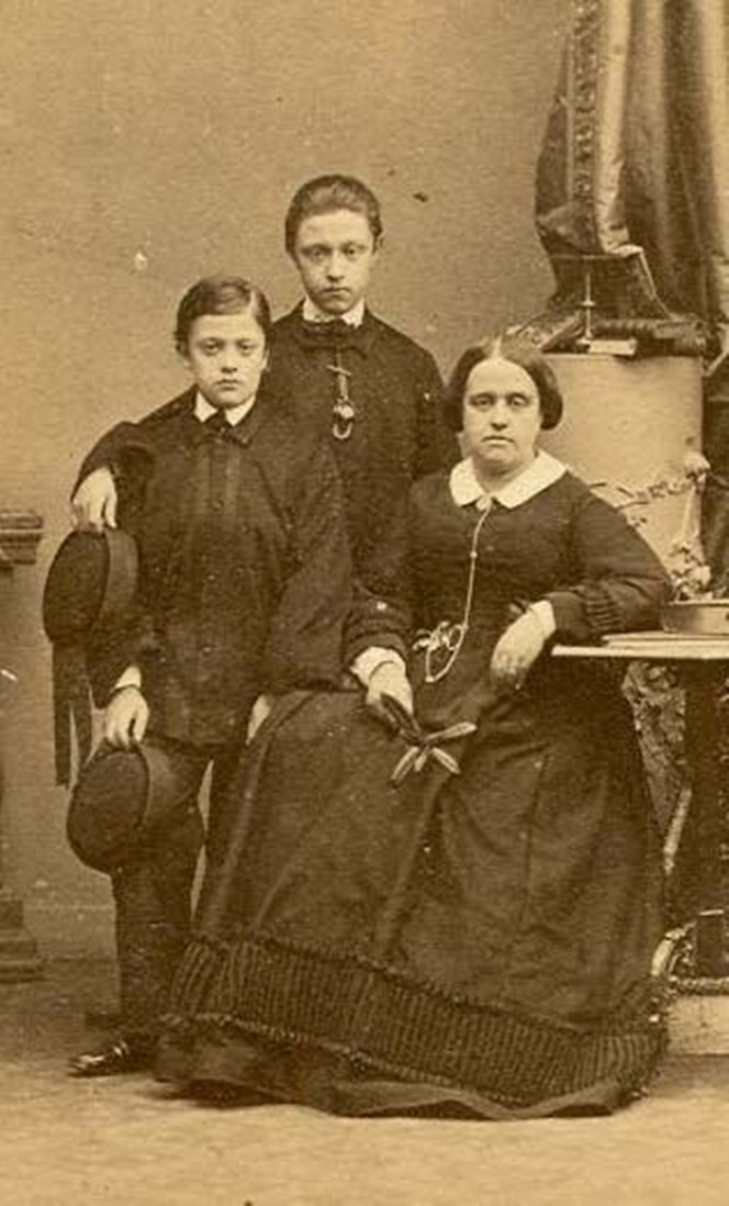 Princess Januaria of Braganza of Brazil with her two sons Louis and Phillip.